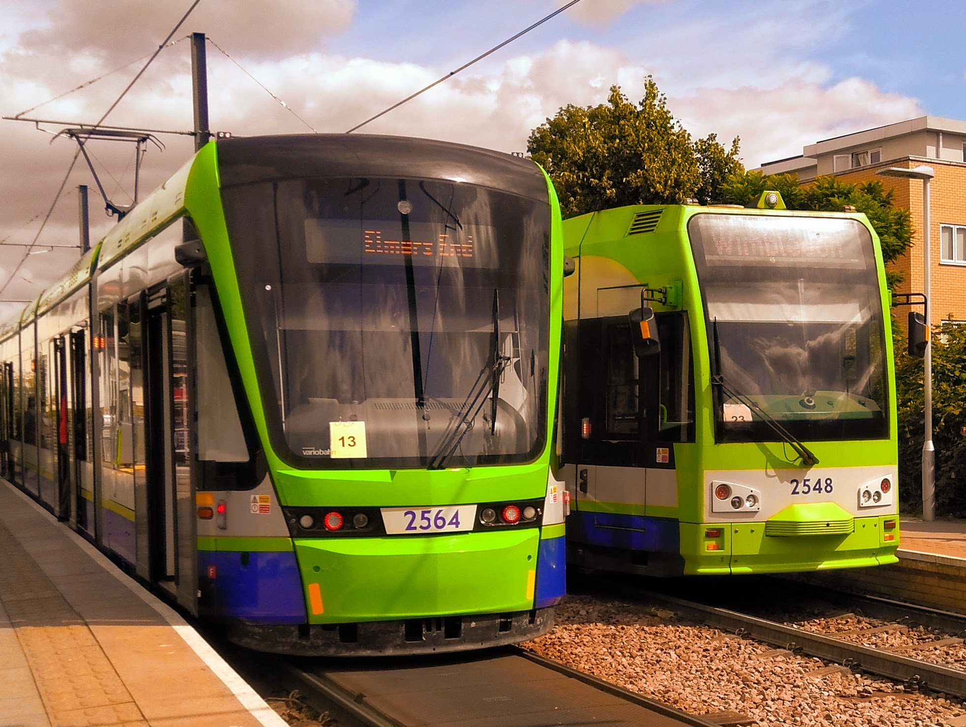 Variobahn 2564 and CR4000 2548 stand at Sandilands tram stop outside Croydon.